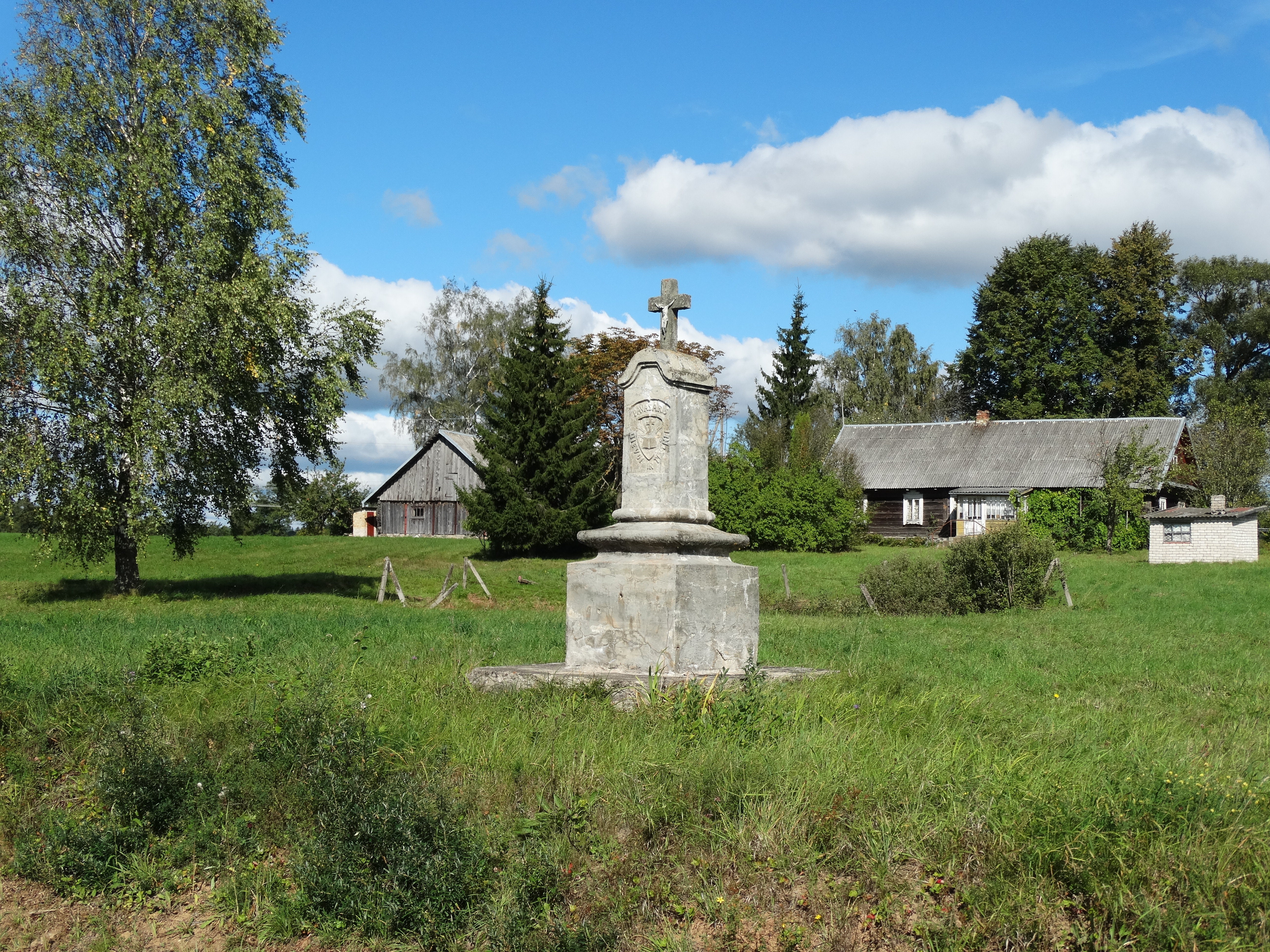 Paluodė, Zarasai District, Lithuania